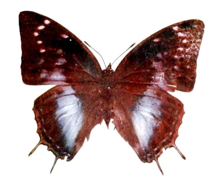 A female Satyr Charaxes